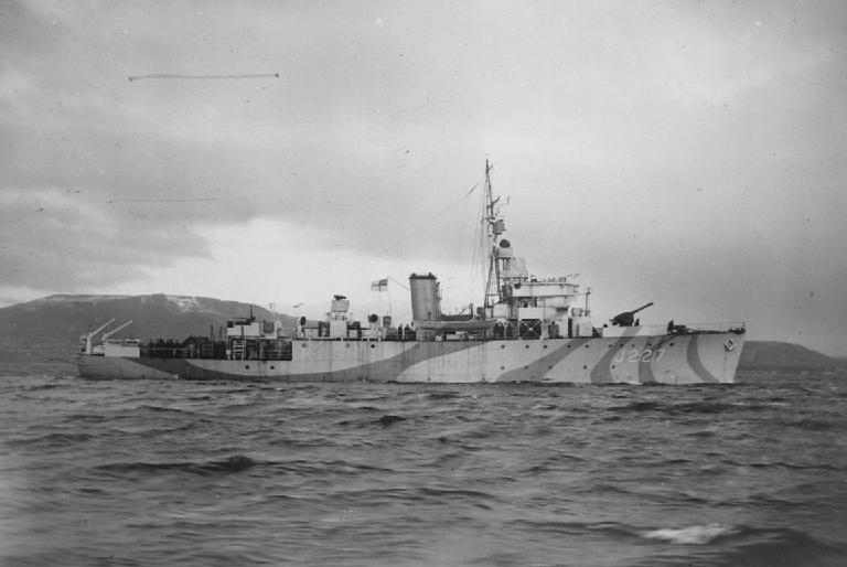 British minesweeper HMS MUTINE stationary.